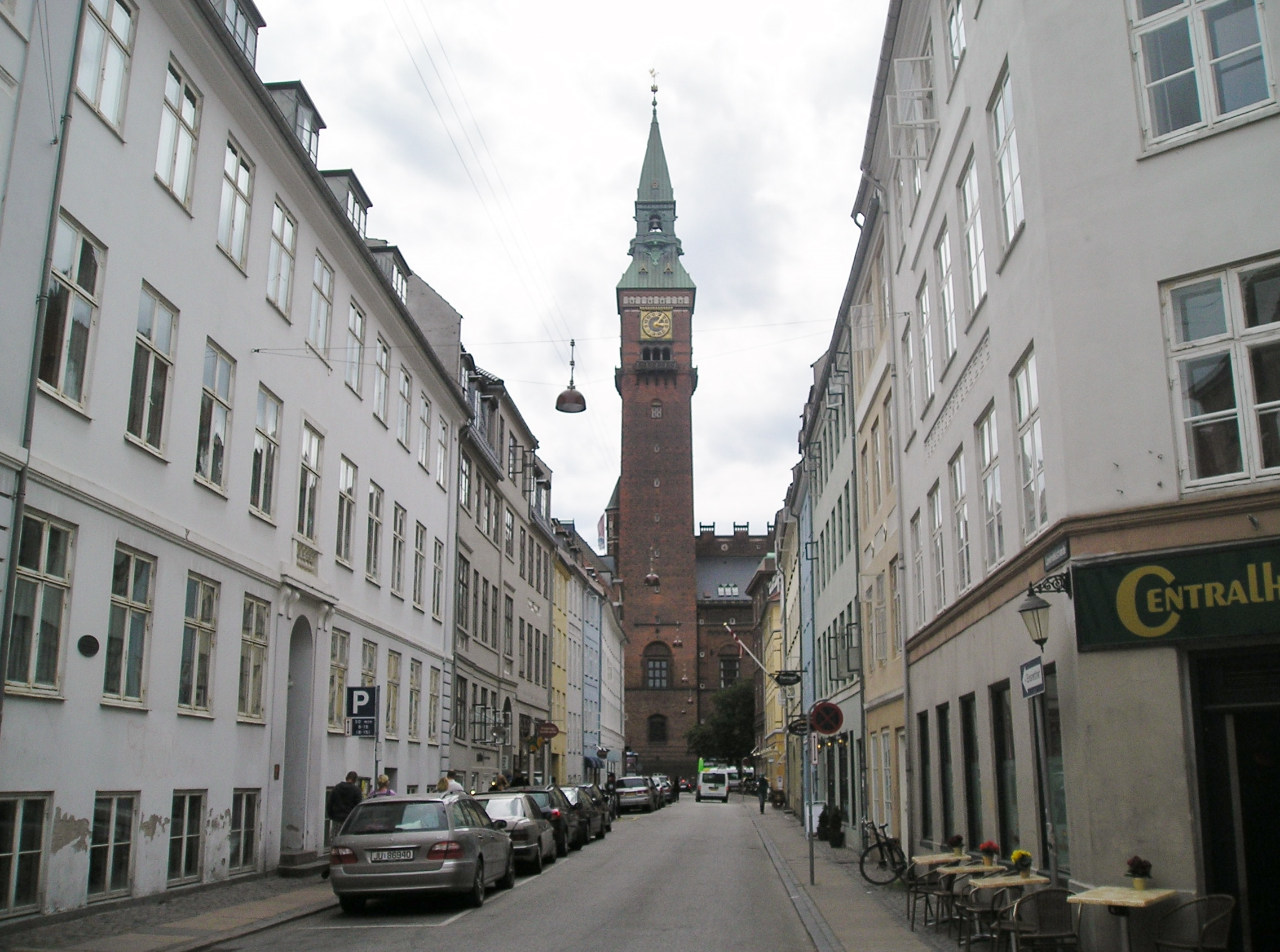 The street Lavendelstræde in Copenhagen with the Copenhagen Town hall tower in the background.